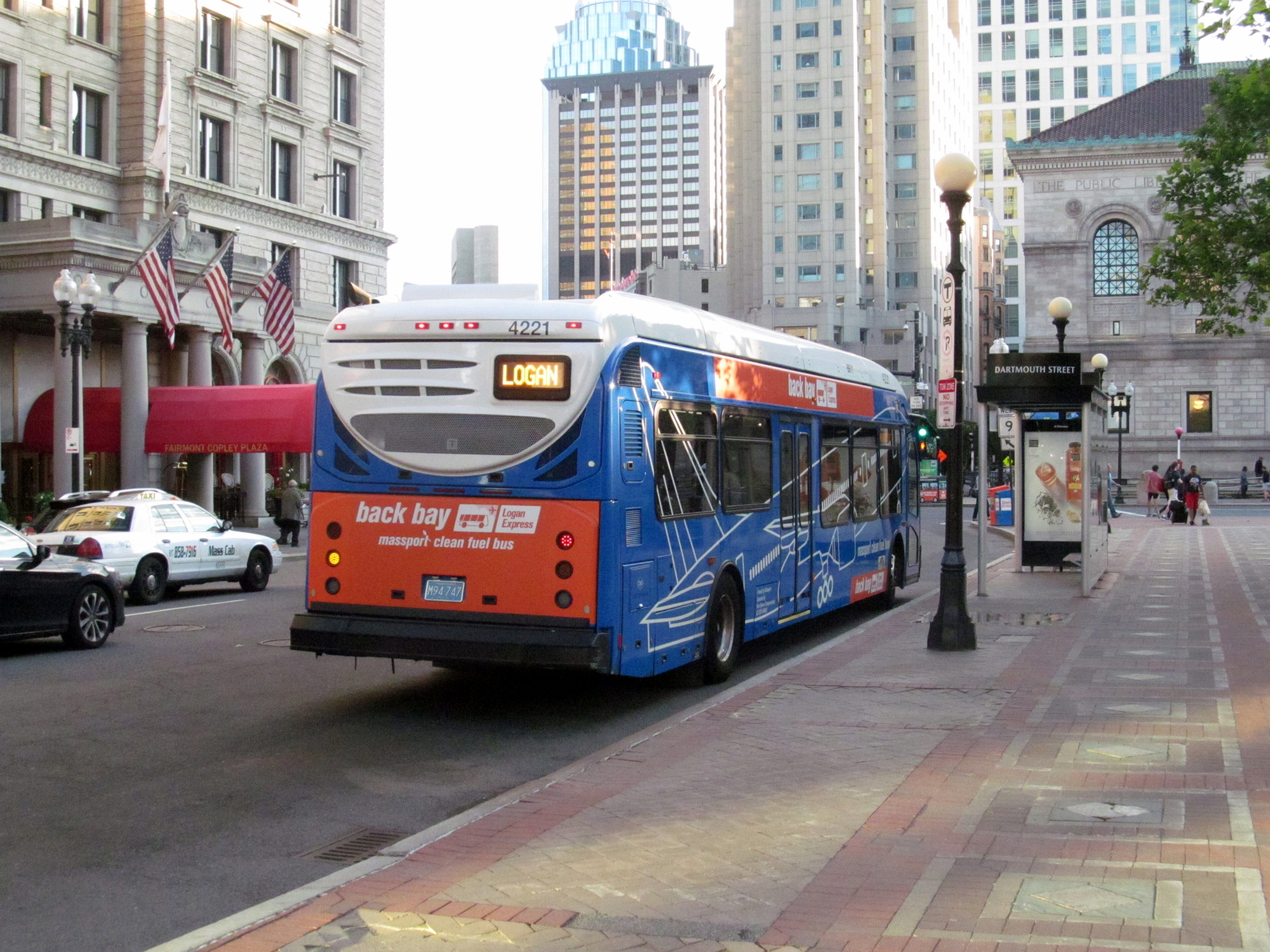 A Back Bay Logan Express bus at Copley Square in June 2016. The route was introduced during the closure of Government Center station in April 2014 as a two year pilot, and made permanent after the station's reopening due to popularity.